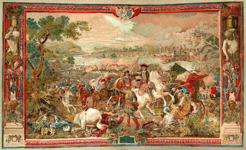 Battle of Párkány in 1683